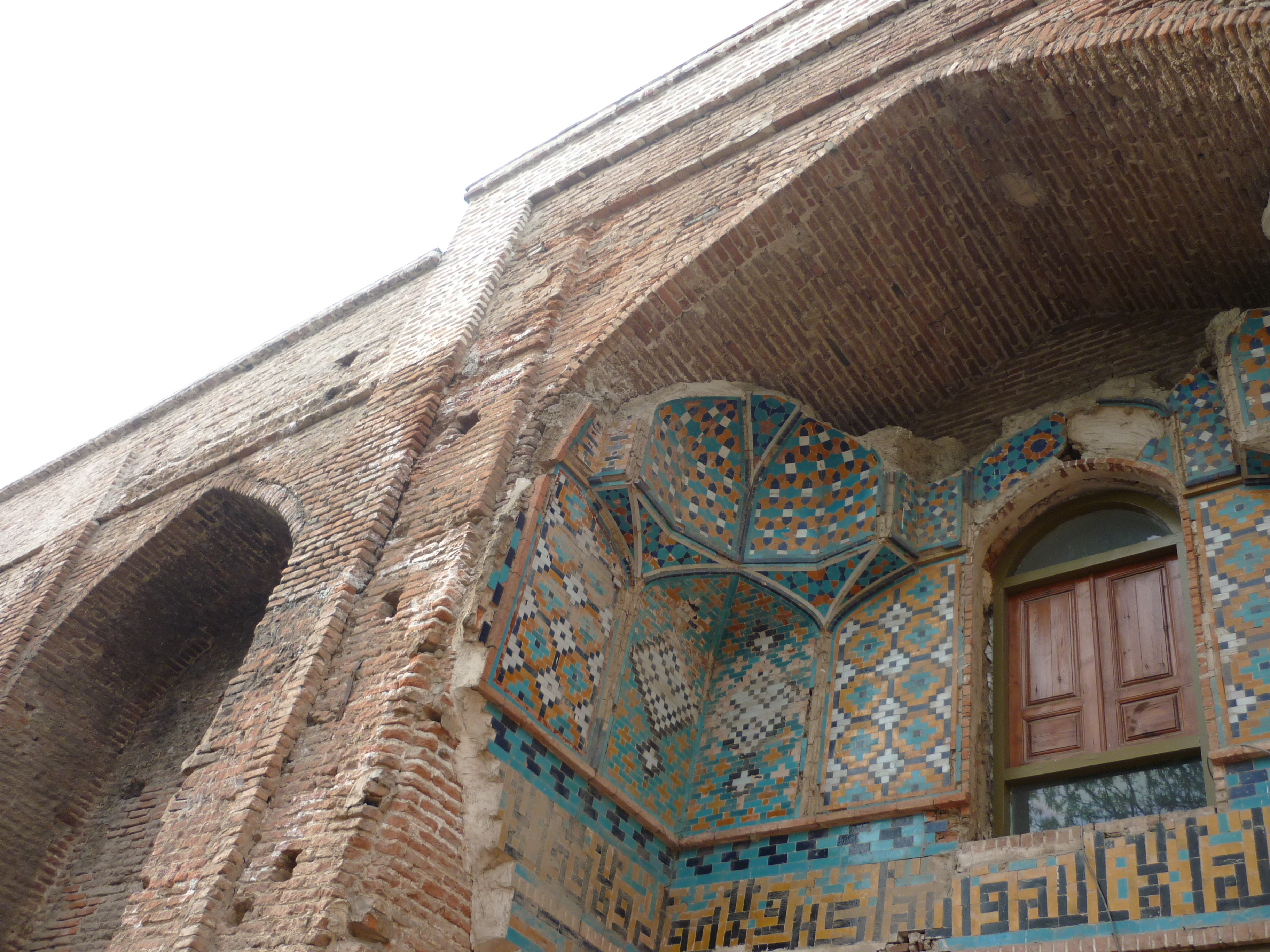 Art Safavid